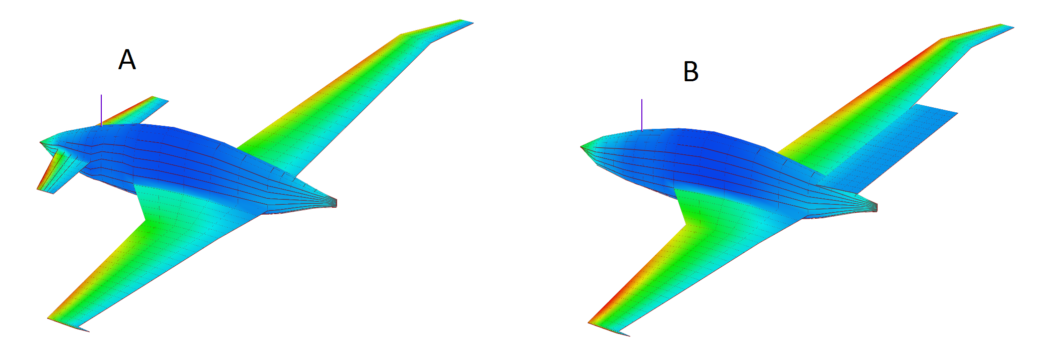 With Open VOGEL, designers can evaluate different models to understand which one might be more convenient.